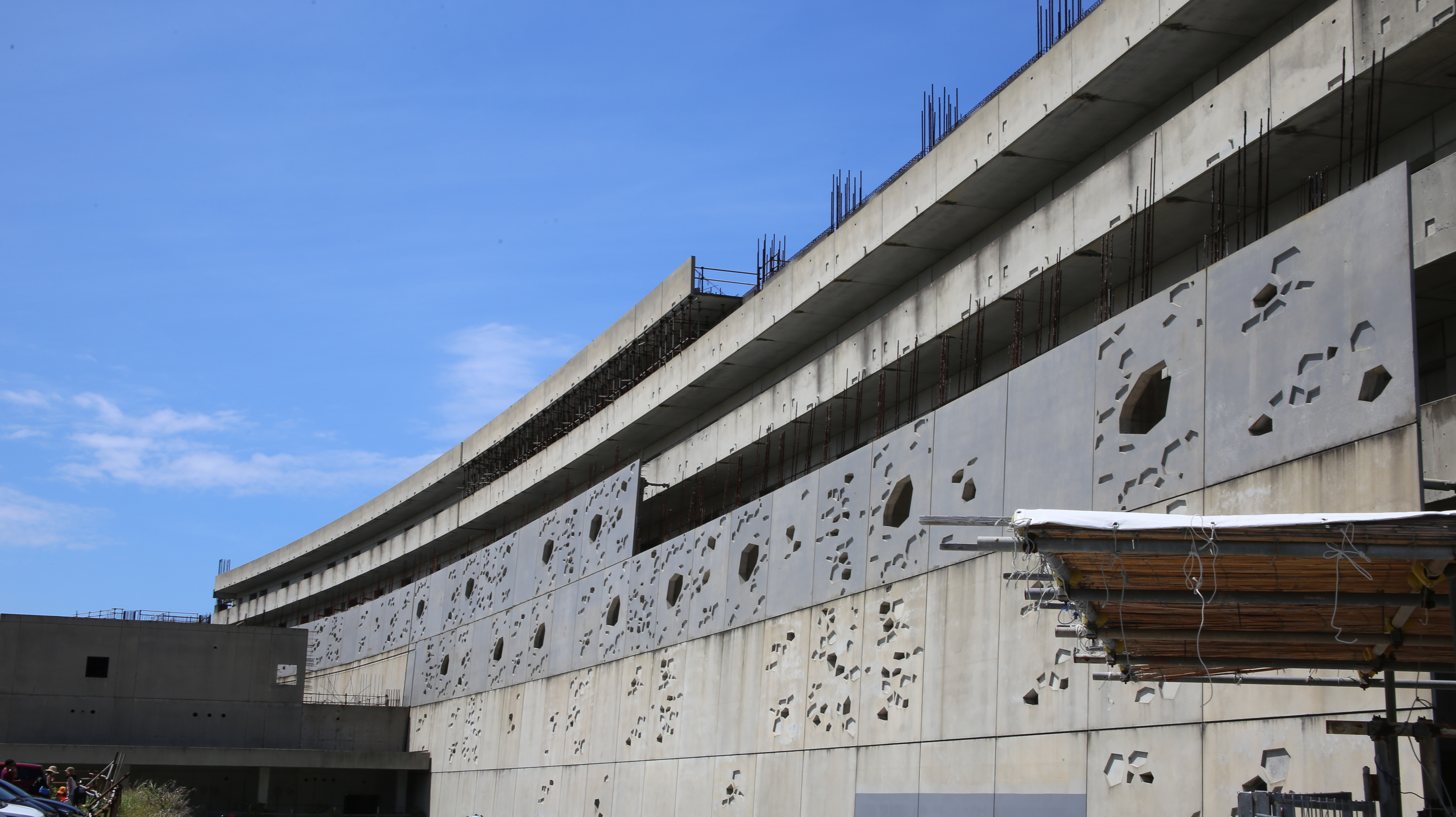 A abandoned hotel building in Sesoko Island, Motobu, Okinawa, Japan